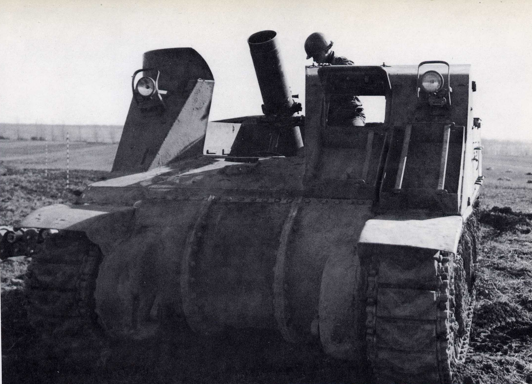 British experimental 9.75 inch mortar mount on an M7 SPH chassis being demonstrated to U.S. 7th Army at Benny, France